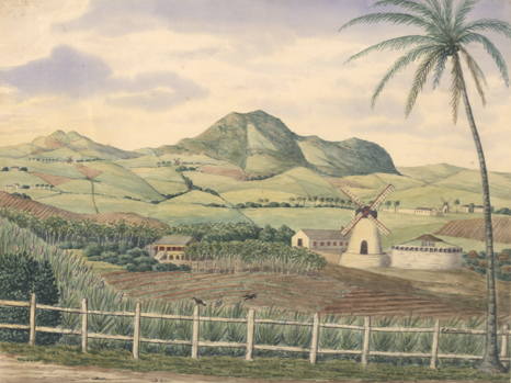 The plantation Morning Star with the mountains on the north coast of St. Croix in the Danish West Indies.